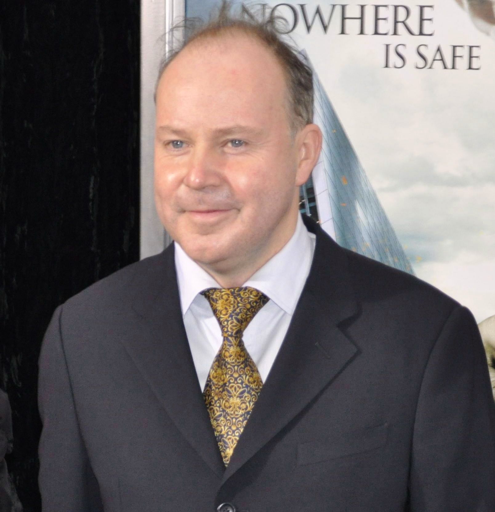 David Yates. Harry Potter and The Deathly Hallows Premiere Alice Tully Center - NYC November 15th 2010